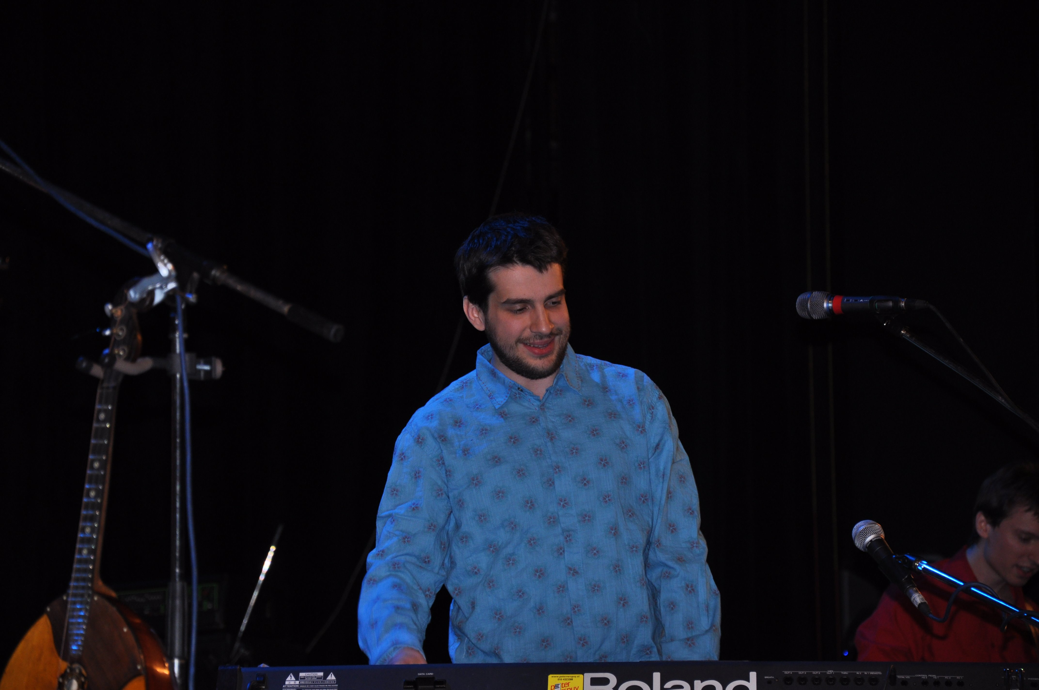 Peter Nalitch